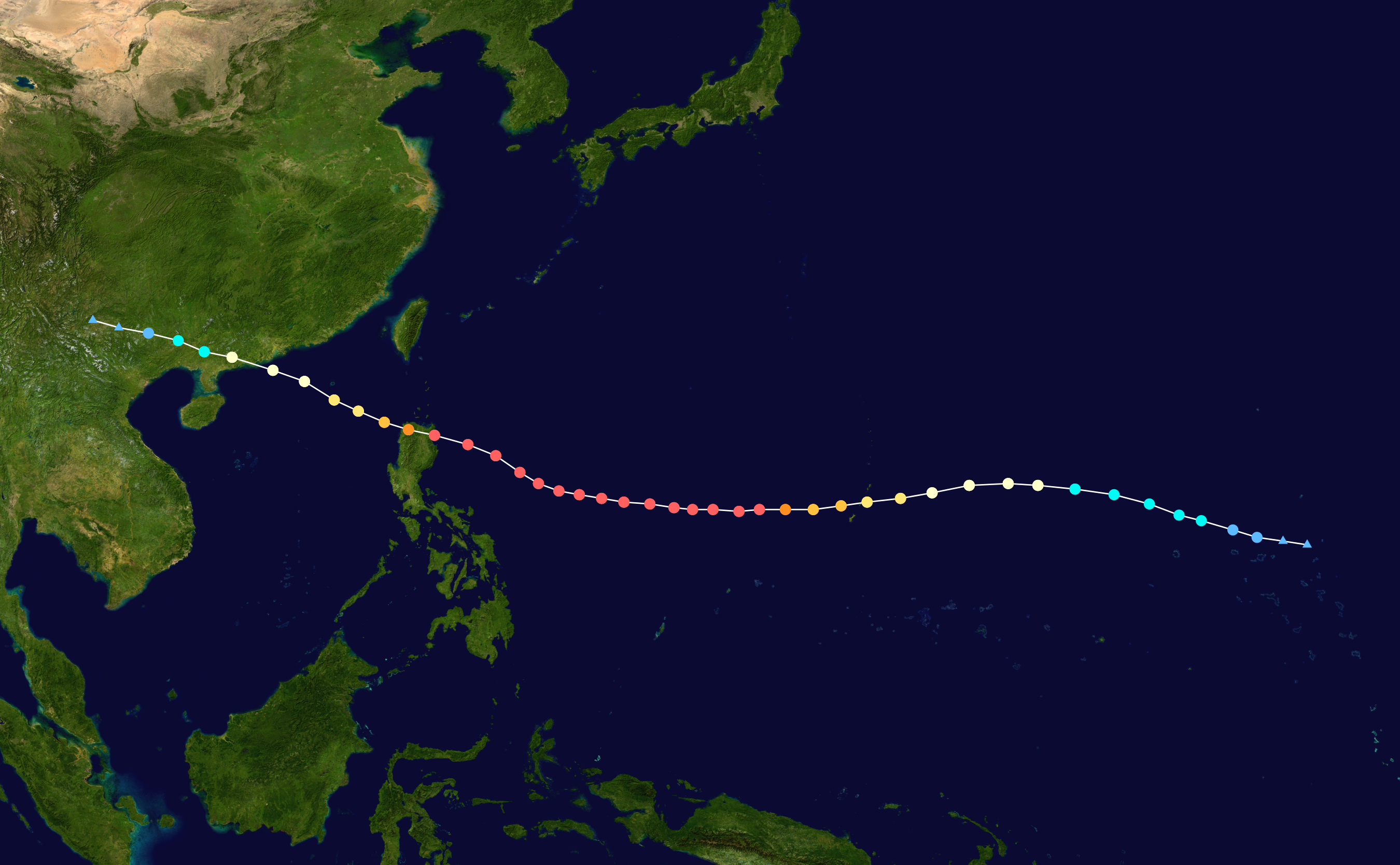 Track map of Typhoon Mangkhut of the 2018 Pacific typhoon season. The points show the location of the storm at 6-hour intervals. The colour represents the storm's maximum sustained wind speeds as classified in the Saffir–Simpson scale (see below), and the shape of the data points represent the nature of the storm, according to the legend below. Saffir–Simpson scale Tropical depression≤38 mph≤62 km/h Category 3111–129 mph178–208 km/h Tropical storm39–73 mph63–118 km/h Category 4130–156 mph209–251 km/h Category 174–95 mph119–153 km/h Category 5≥157 mph≥252 km/h Category 296–110 mph154–177 km/h Unknown Storm type Tropical cyclone Subtropical cyclone Extratropical cyclone / Remnant low / Tropical disturbance / Monsoon depression